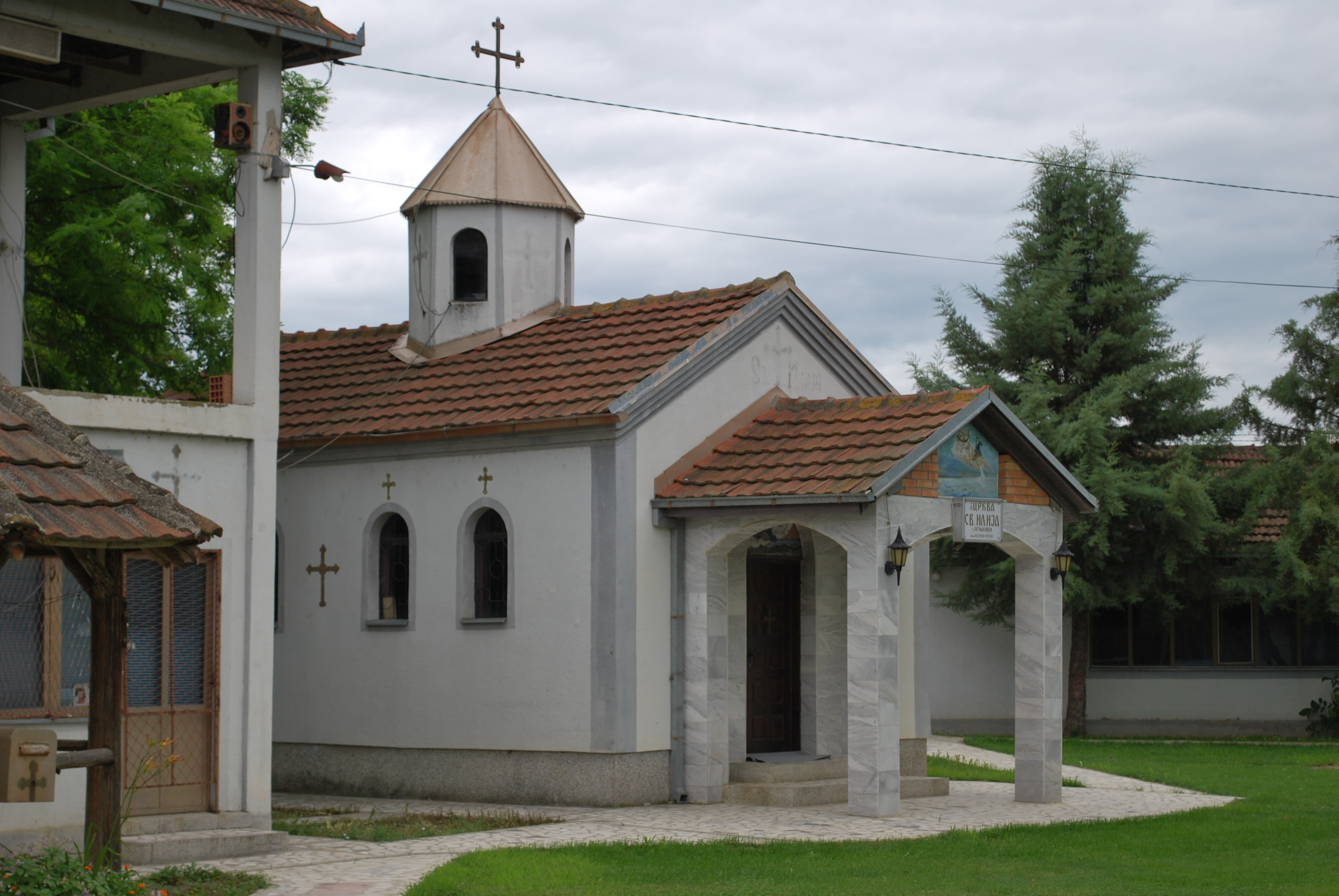 St. Elijah Church in Ognjanci, Macedonia